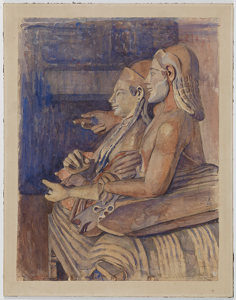 Watercolour painting of an Etruscan sarcophagus by the Danish painter Marie Henriques. Let to the Louvre by Statens Museum for Kunst.